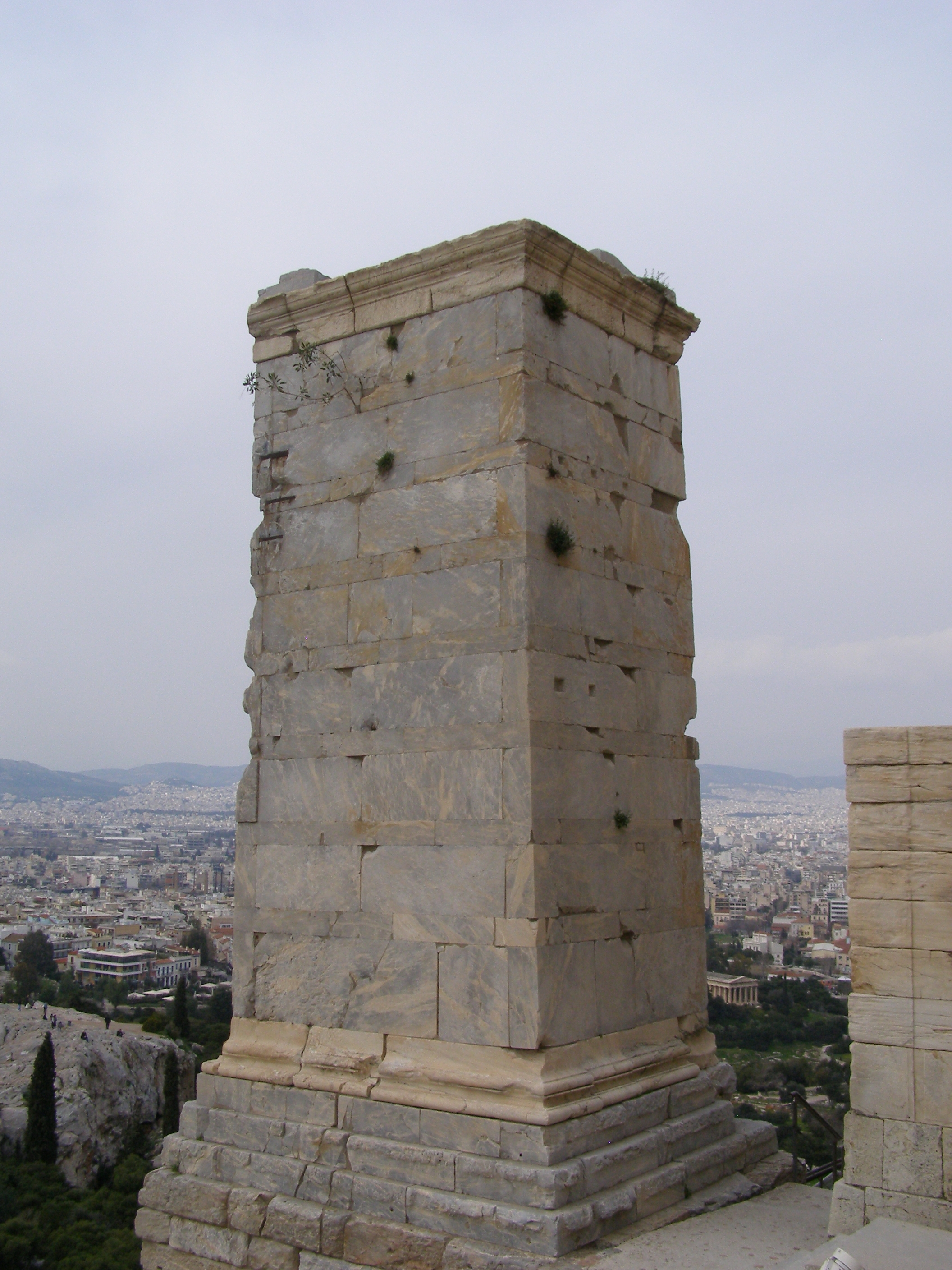 Athens - remains of the monument of Agrippa at the Acropolis